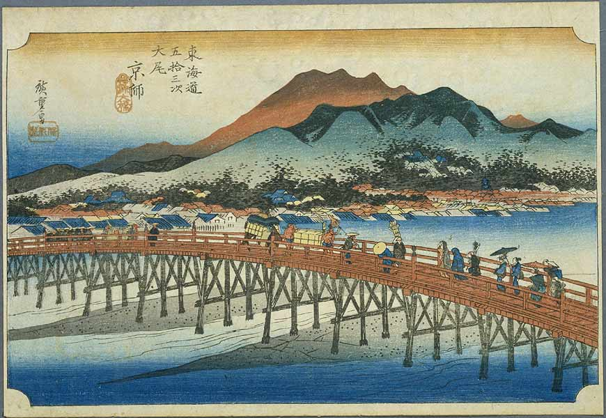 Sanjo Ohashi on the Tokaido, ukiyo-e prints by Hiroshige